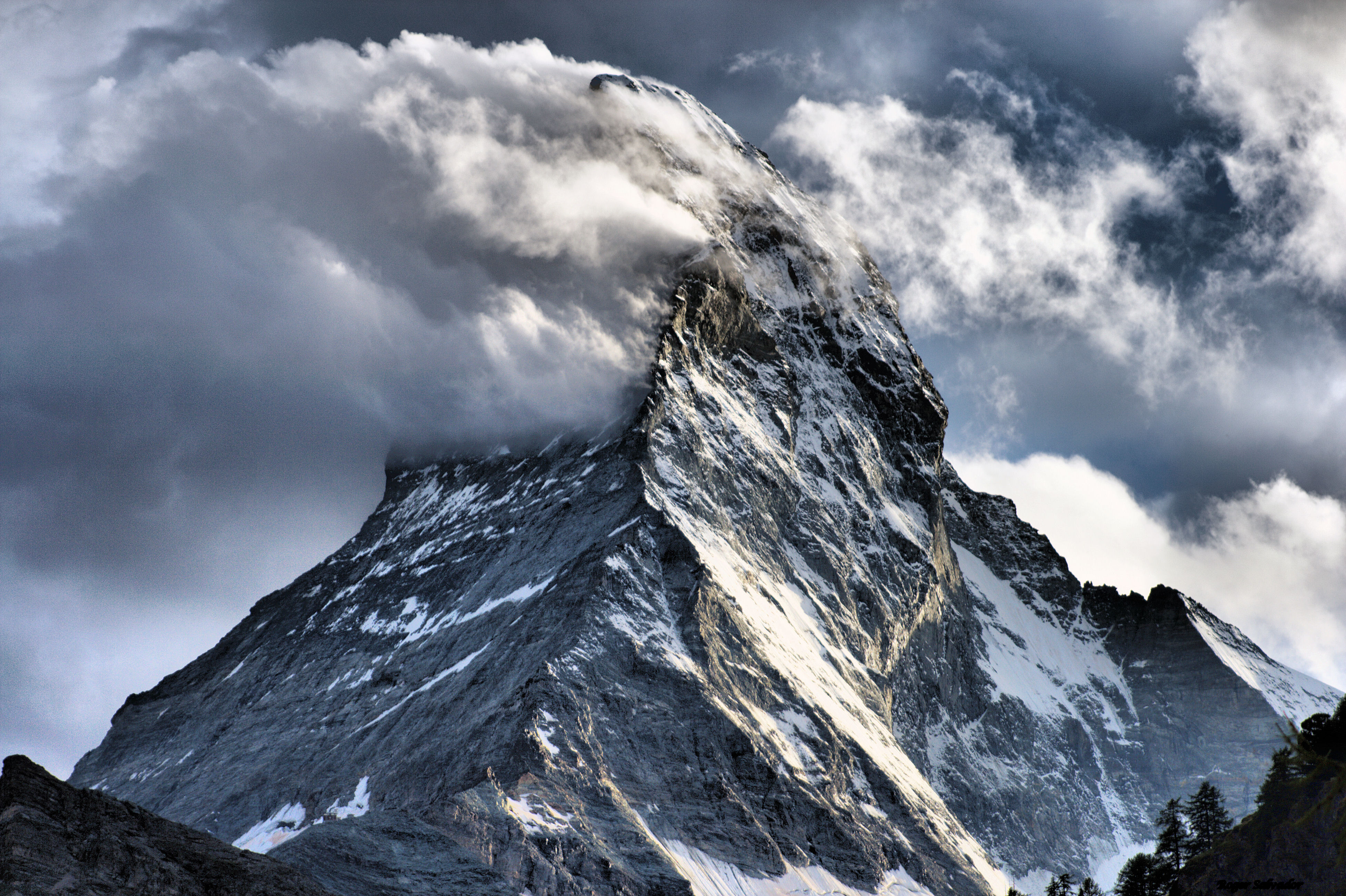 Matterhorn, Horu for the locals